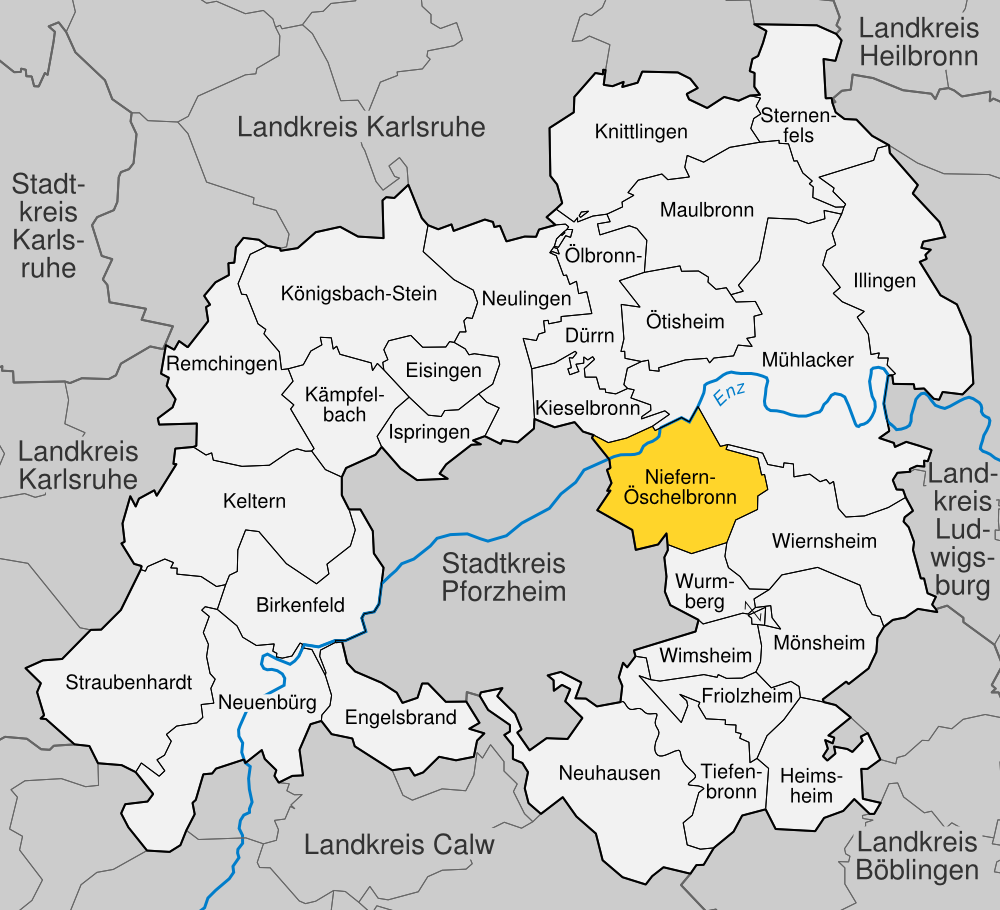 position of Niefern-Öschelbronn within distict of Enzkreis, Baden-Württemberg, Germany